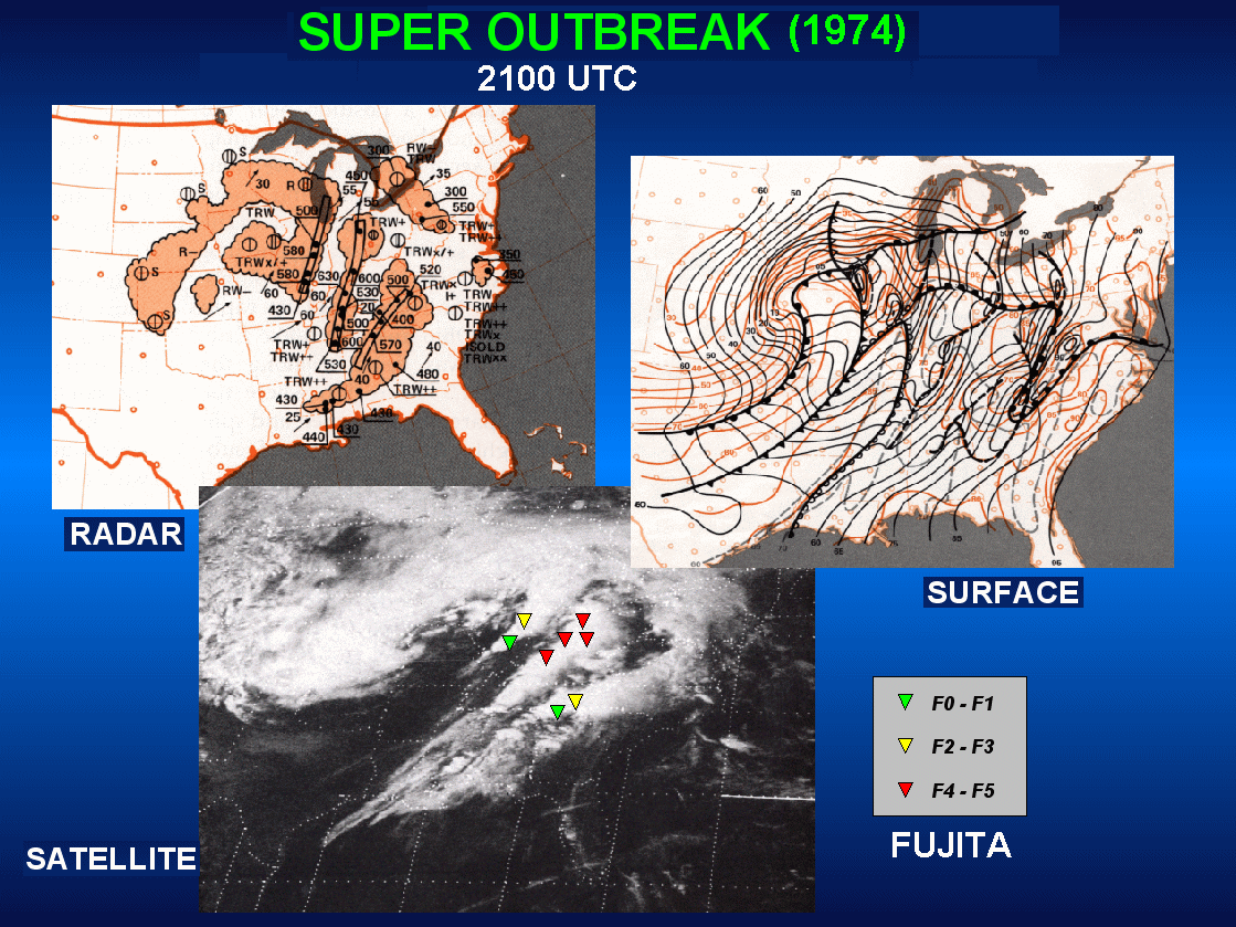 At 21 UTC on April 3rd, 1974, radar, surface and satellite picture of the thunderstorms durnig the Super Outbreak. These images show the organization in three bands of the tornadoes.